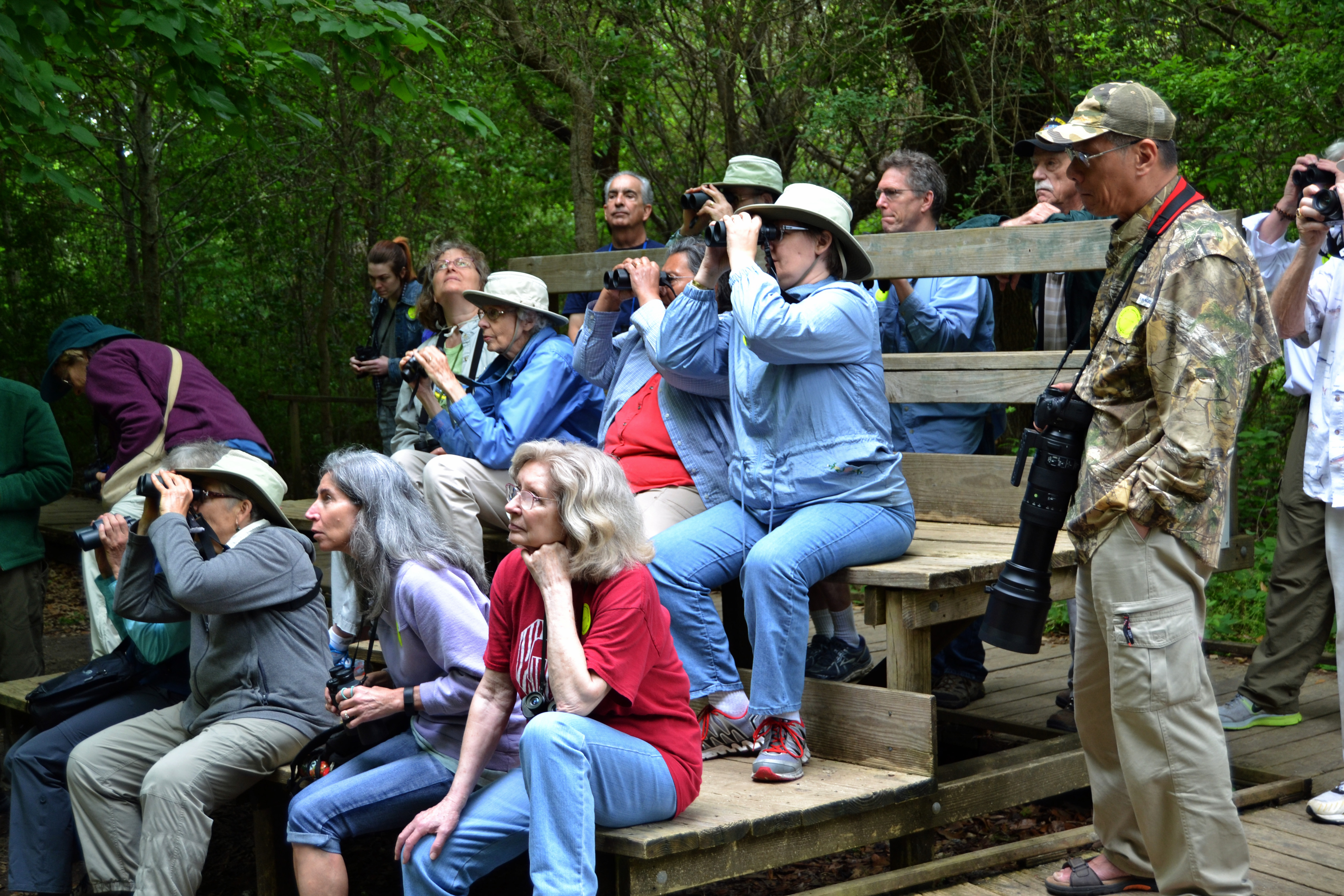 Eager birders at the Boy Scout Woods stands watching for birds to come to the water drip. April 2016.